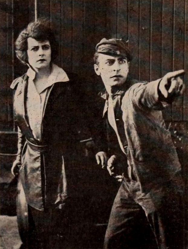 Still from the American drama film The Iron Heart (1920) with Madlaine Traverse and an unidentified actor, on page 67 of the May 29 , 1920 Exhibitors Herald.